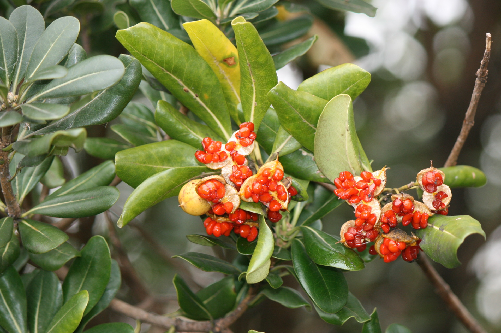 Fruits of Japanese Cheesewood (Pittosporum tobira) in Kiso River| side